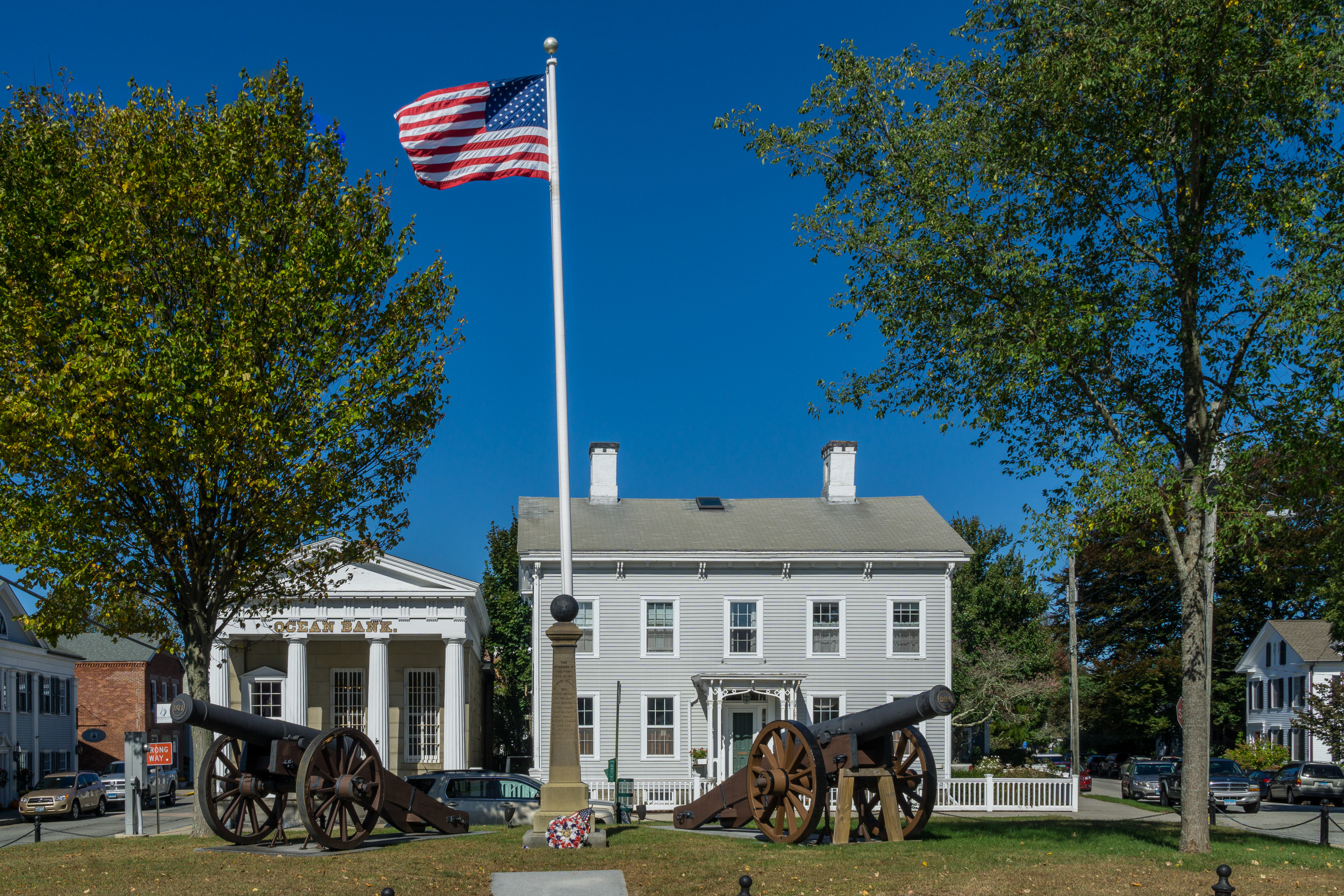 Cannon Square, Stonington, Connecticut. The two cannons at this site were used to repulse the failed British Naval attack at Stonington Point during the War of 1812. At center is "The Defenders of the Fort" memorial. The two cannons are 18-pounders, cast at West Point Foundry in the 1780s.